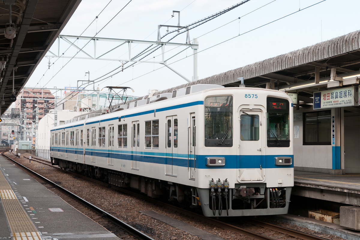 Tobu 8000 series two-car EMU set 8575 at Hikifune Station on the Tobu Kameido Line